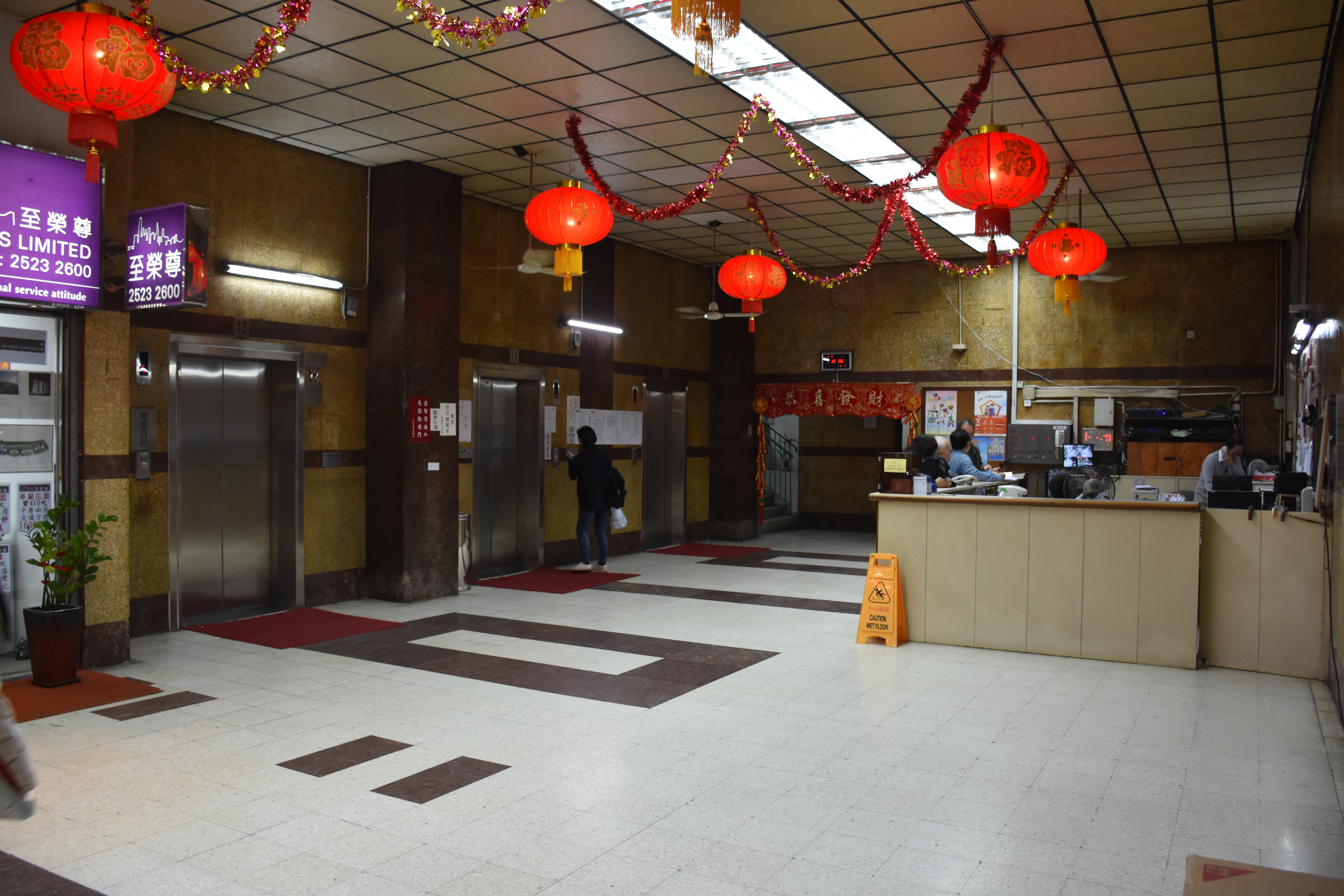 Main entrance lobby of Sunway Gardens.